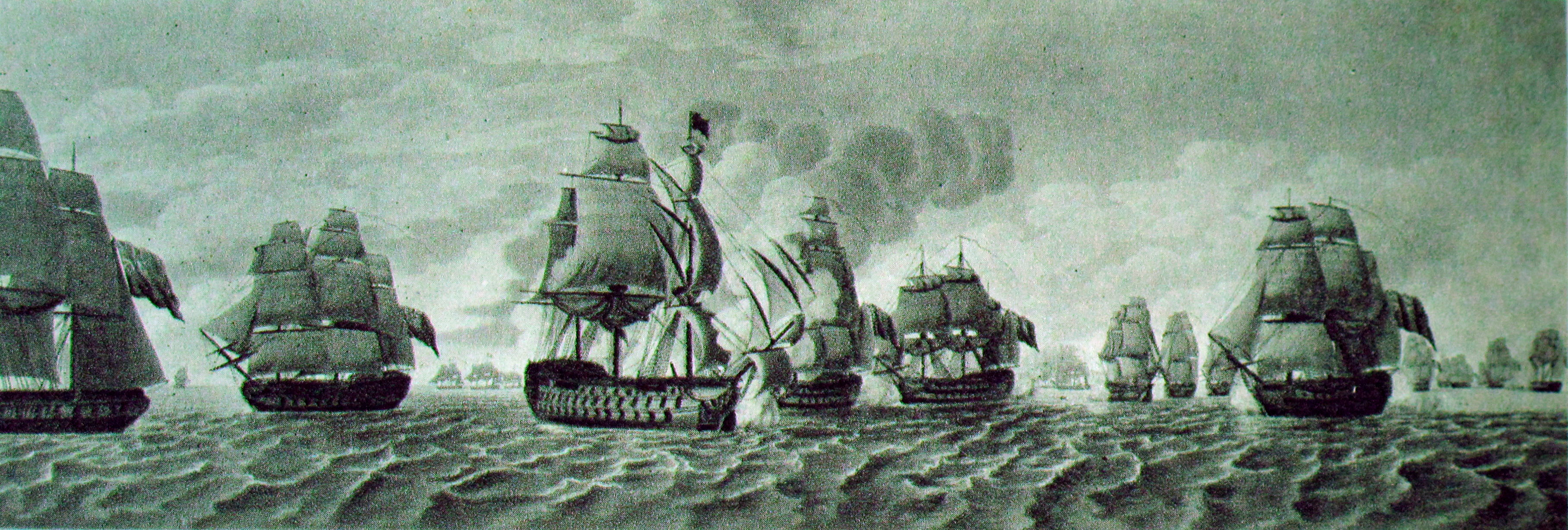 Second phase of Admiral Cornwallis's fight: the French attacking HMS Mars 1 2 3